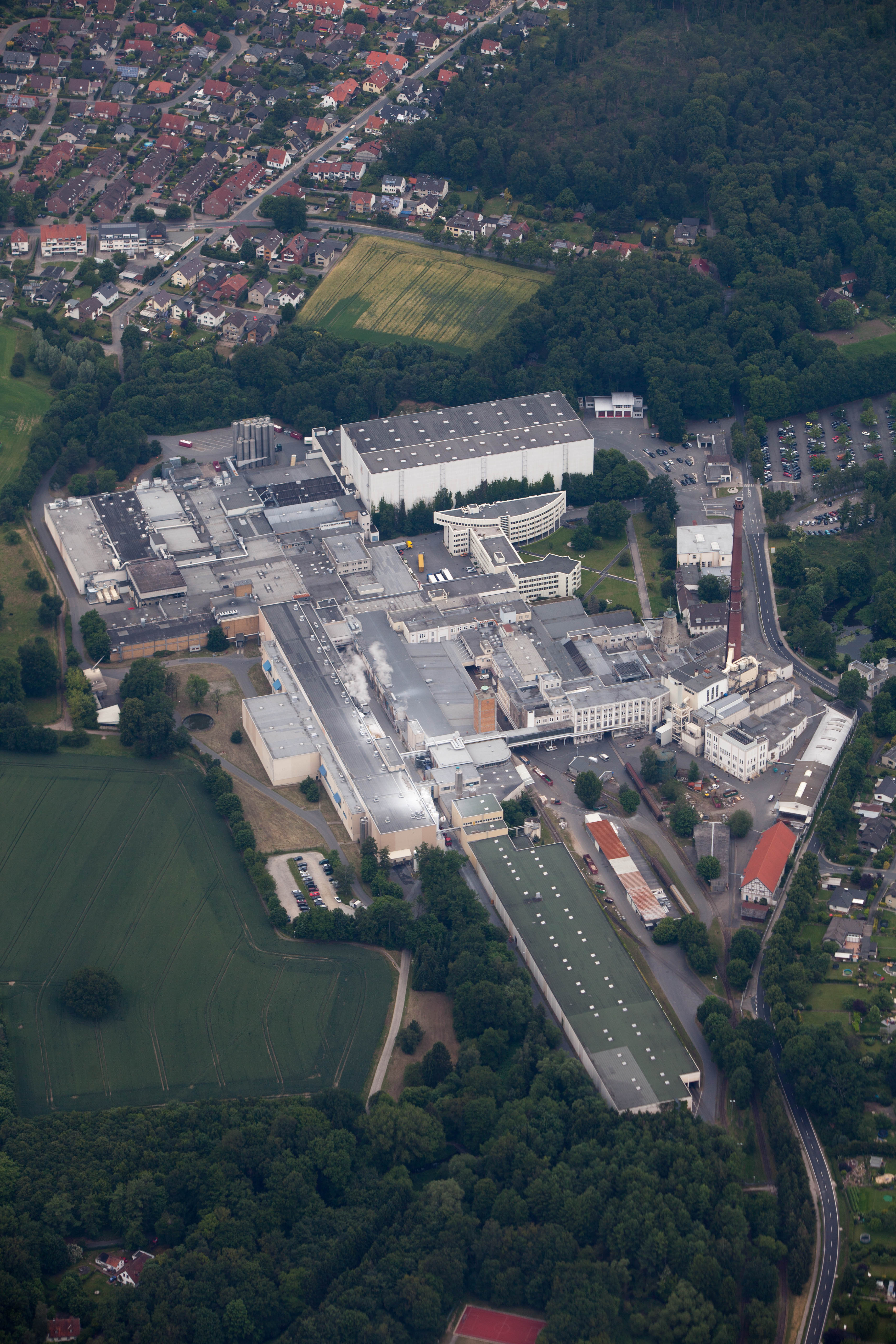 Felix Schoeller paper mill in Osnabrück, Lower Saxony